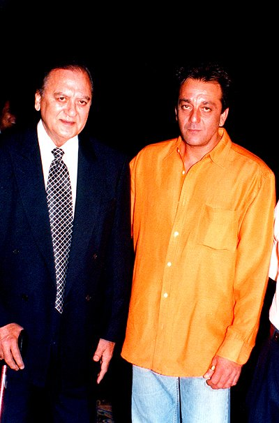 Audio release of Munnabhai MBBS